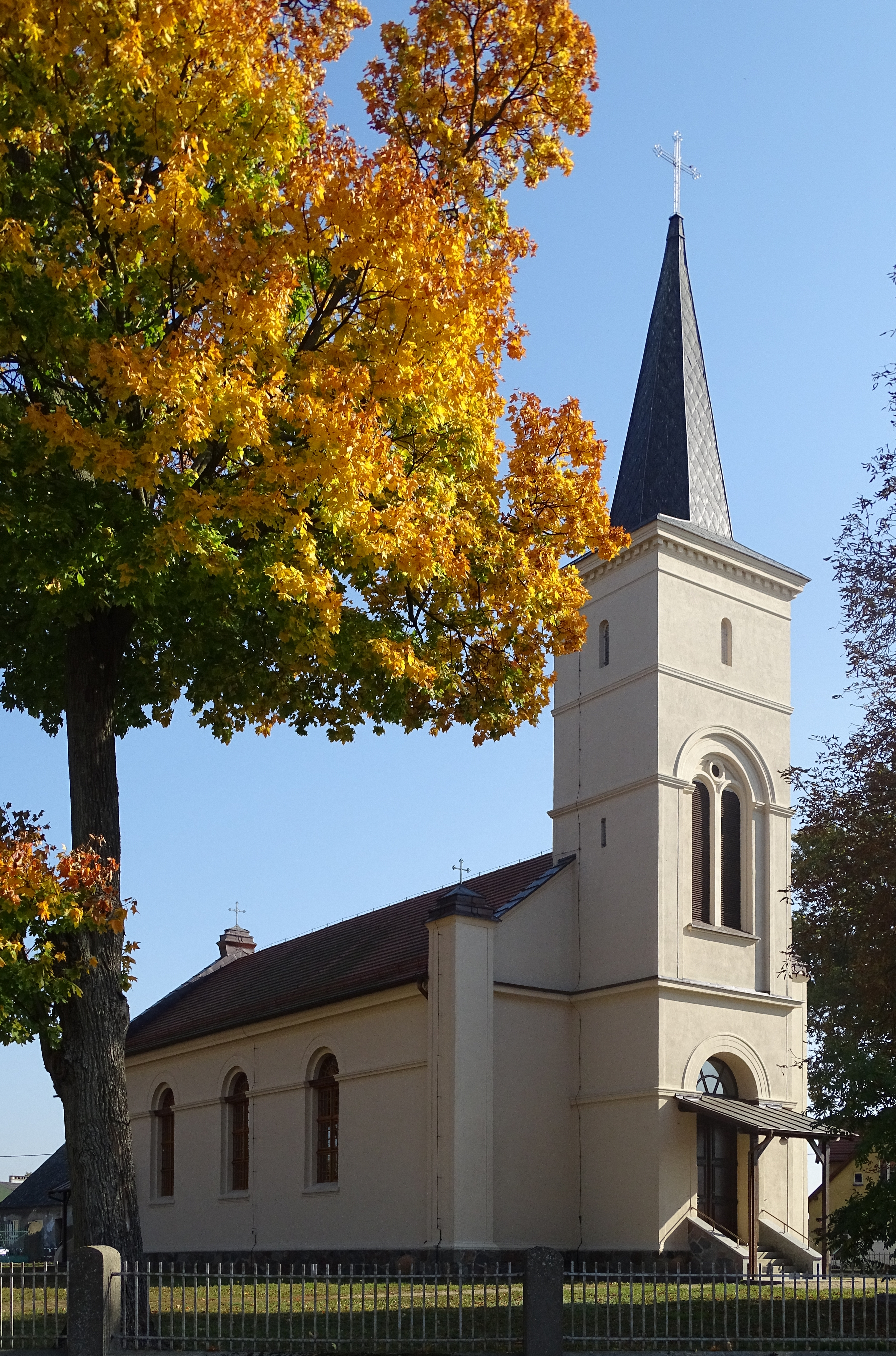 Sławno, Gniezno County, Poland, church of St Nicholas. Built in 1844.